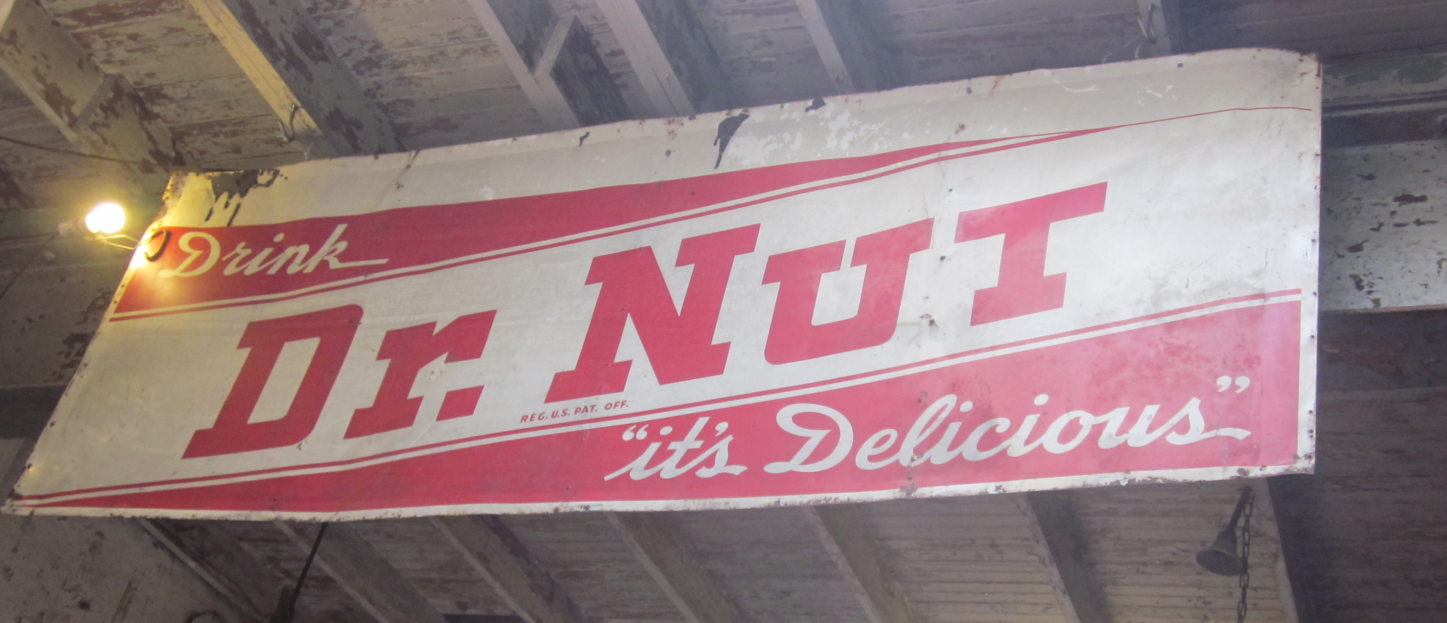 Drink Dr. Nut. "It's Delicious". Old sign for defunct local soft drink brand, New Orleans.